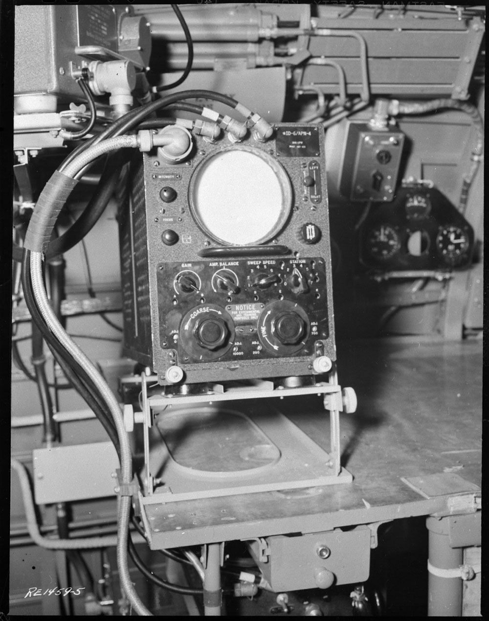 AN/APN-4 LORAN in RCAF Canso aircraft. The associated electronics box is not seen in this photograph, and the position of the cabling suggests it is just out of frame off the bottom of the photo.